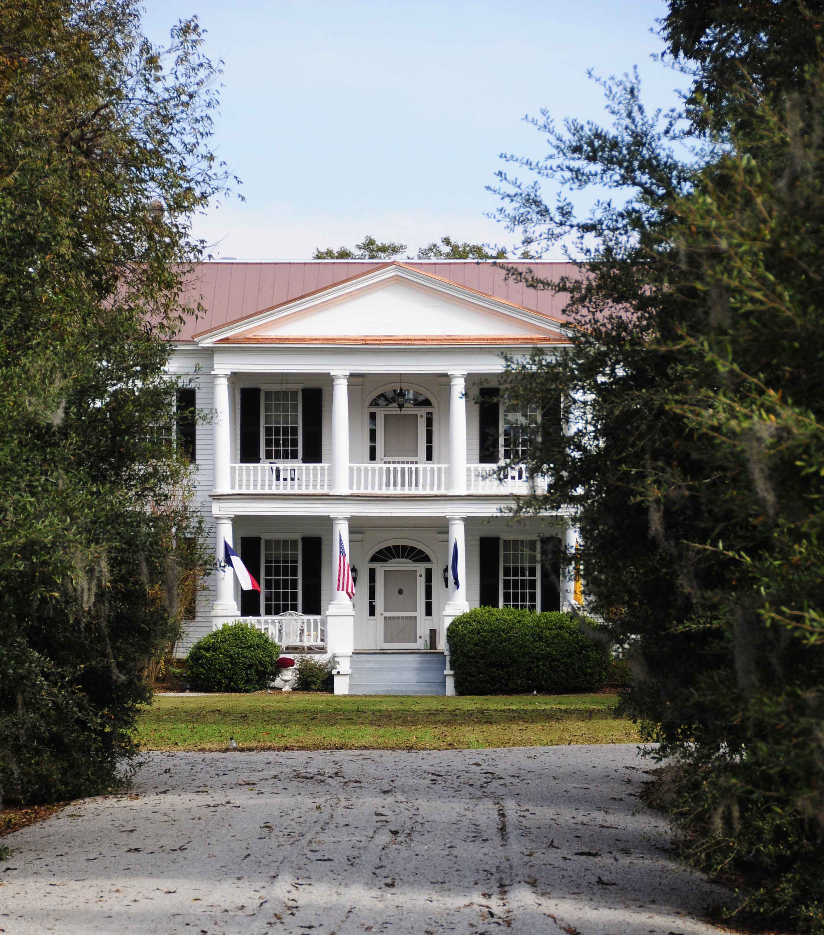 Midway Plantation, Fort Motte vicinity, South Carolina